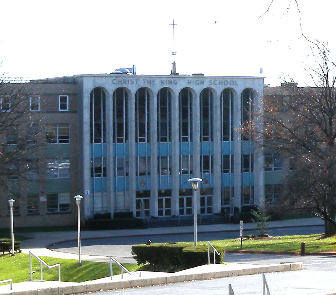 Looking south from Metropolitan Avenue gate at Christ The King Regional High School on a sunny afternoon.